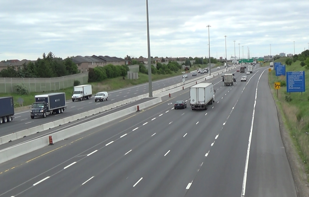 Highway 427 looking south from Morning Star Drive. The highway is in Etobicoke, part of Toronto; to the right is Mississauga.